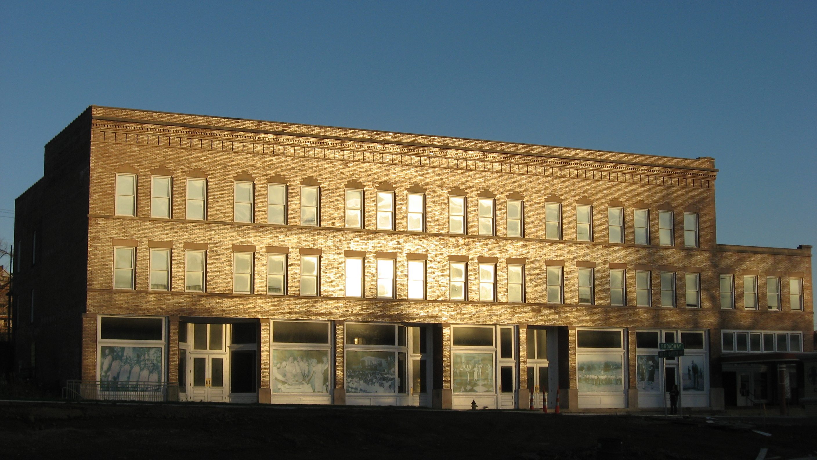 Front of the Homestead Hotel, located on the eastern side of Broadway Street (State Road 56) between First and Ballard Streets in West Baden Springs, Indiana, United States. Built in 1913, it is listed on the National Register of Historic Places.